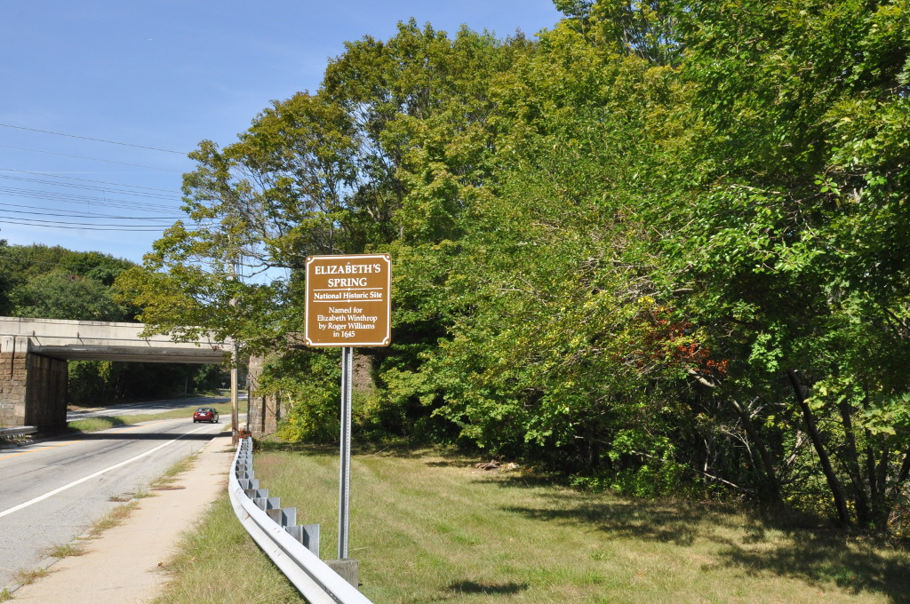 View on approach to Elizabeth Spring, Warwick, Rhode Island.